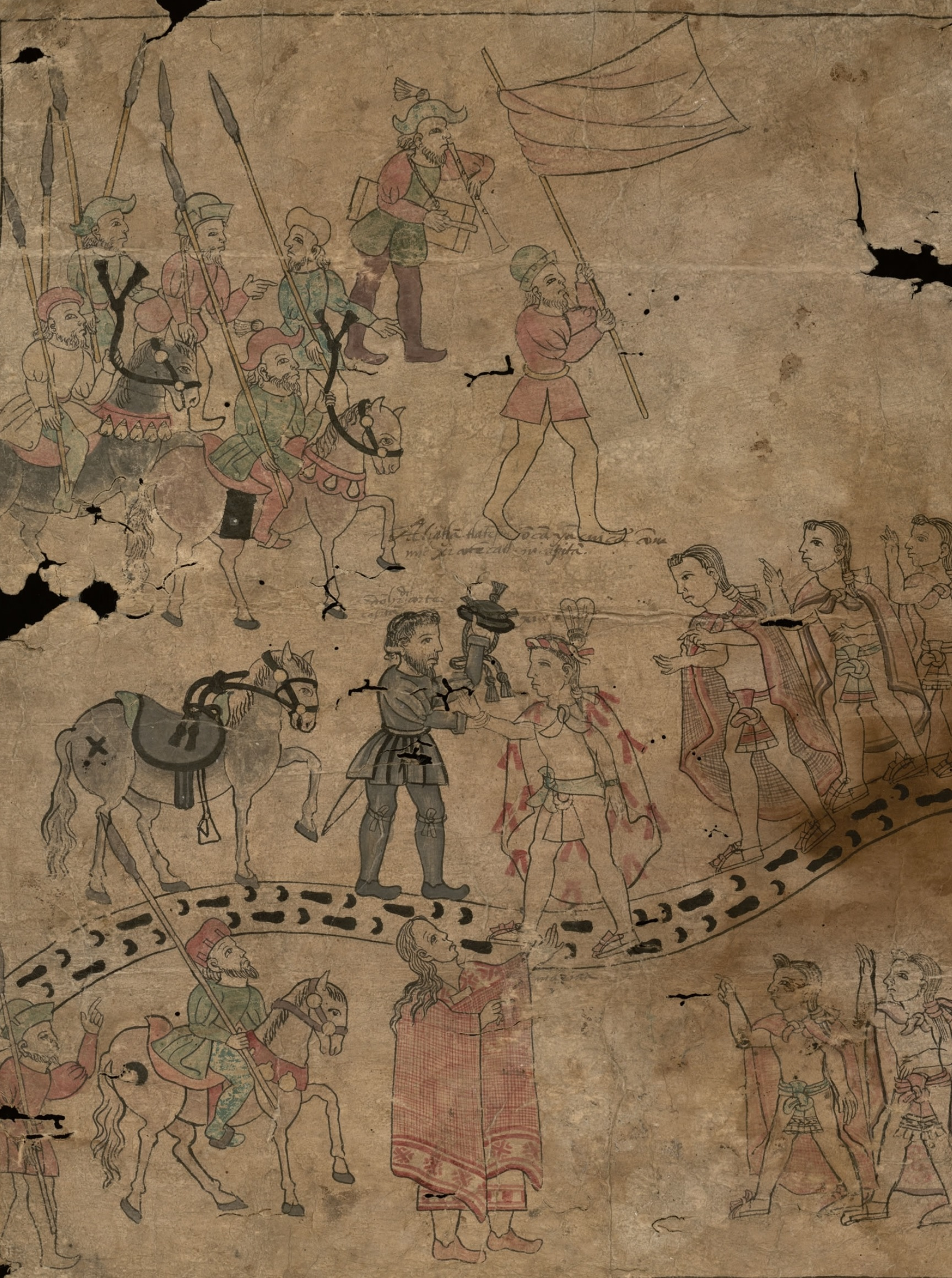 Aztec ruler Xicoténcatl and Hernán Cortés on the Lienzo de Tlaxcala